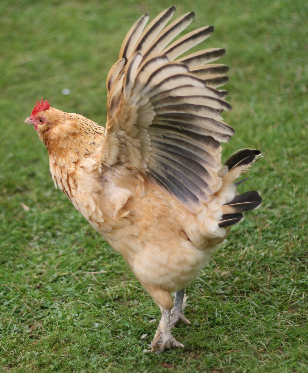 A chicken flaps its wings.